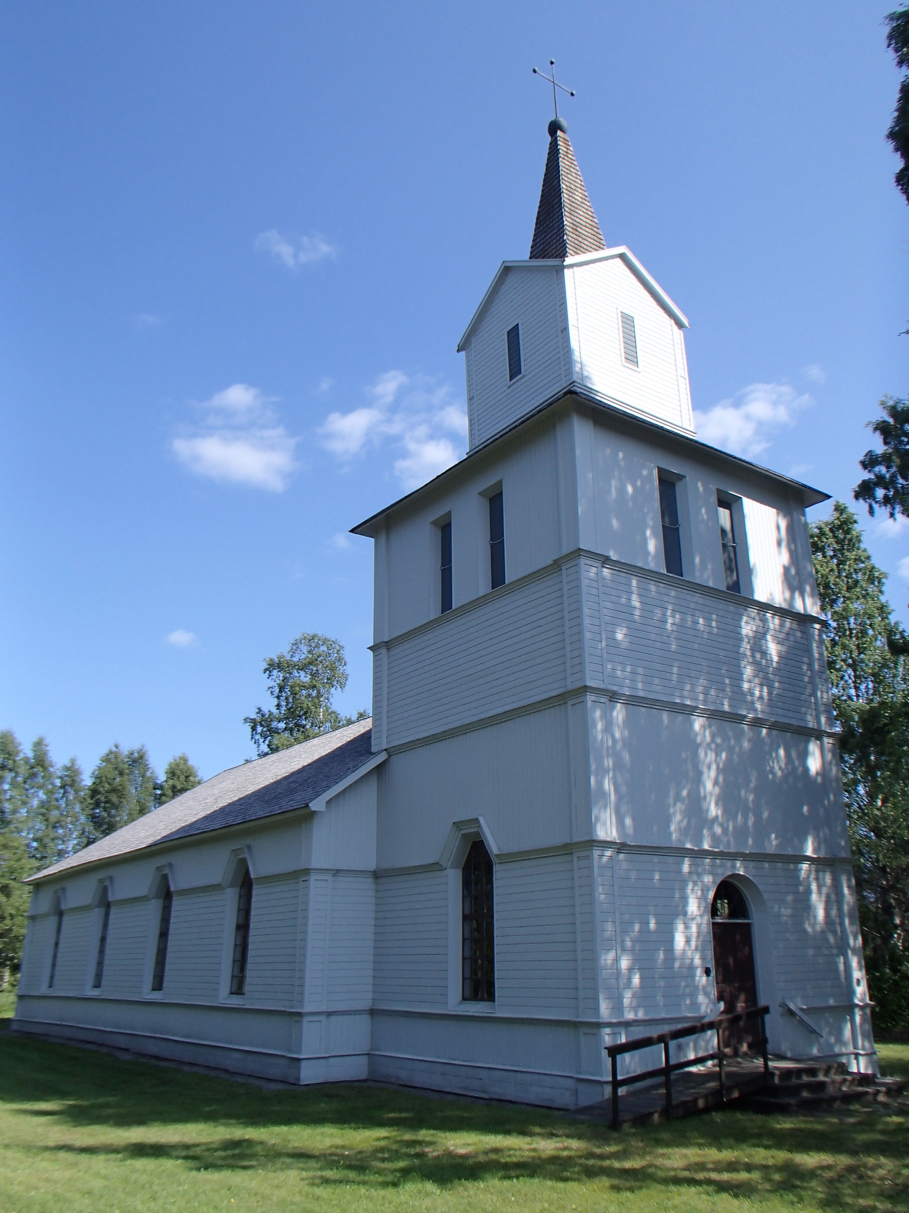 Buildings of "Hörnefors bruk" at Sundelinsvägen 62 in Hörnefors, Umeå Municipality